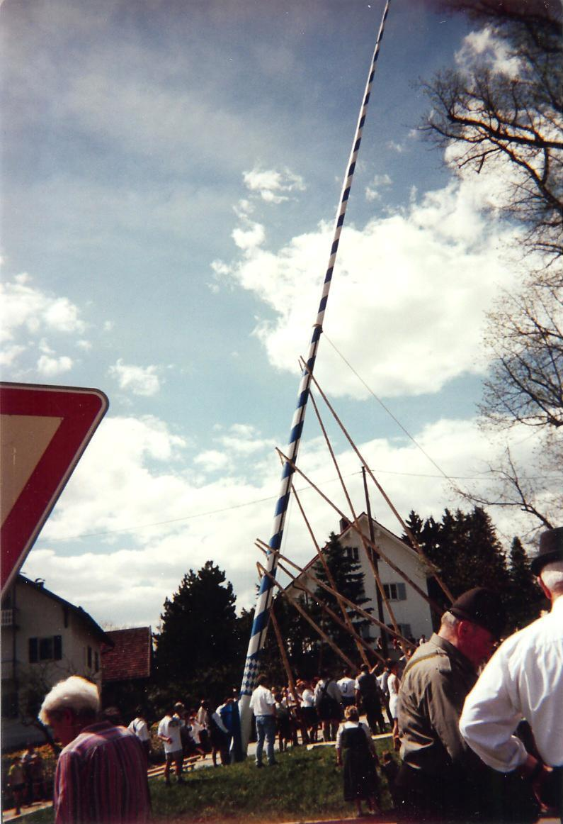 Village to the south west of Munich, Germany on May Day.